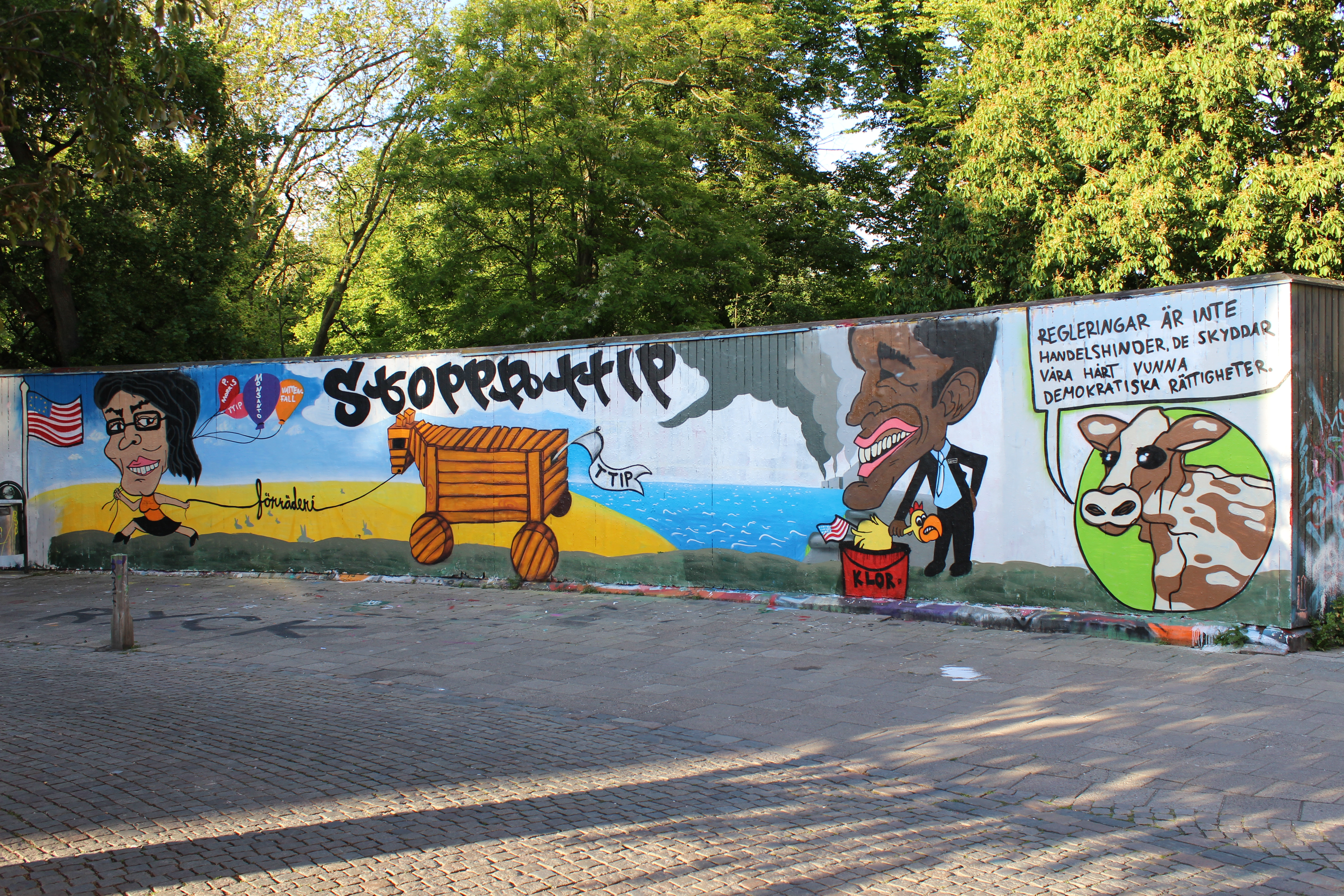 Anti-TTIP graffiti in Malmö, Sweden. The image shows Swedish politician Cecilia Malmström, European Commissioner for Trade, leading a Trojan horse, the rope forming the word "treachery". The Swedish text in the speech bubble says "Regulations are not trade barriers, they protect our hard-won democratic rights". US president Barack Obama is shown dipping a chicken in chlorine.